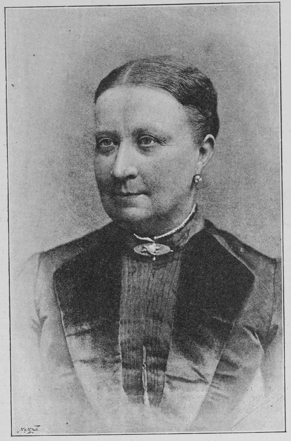 Portrait of Luisa OLIVOVÁ (1831 - 1892), wife of Alois Oliva. The couple jointly created Oliva Foundation for the support of education of children in Bohemia.